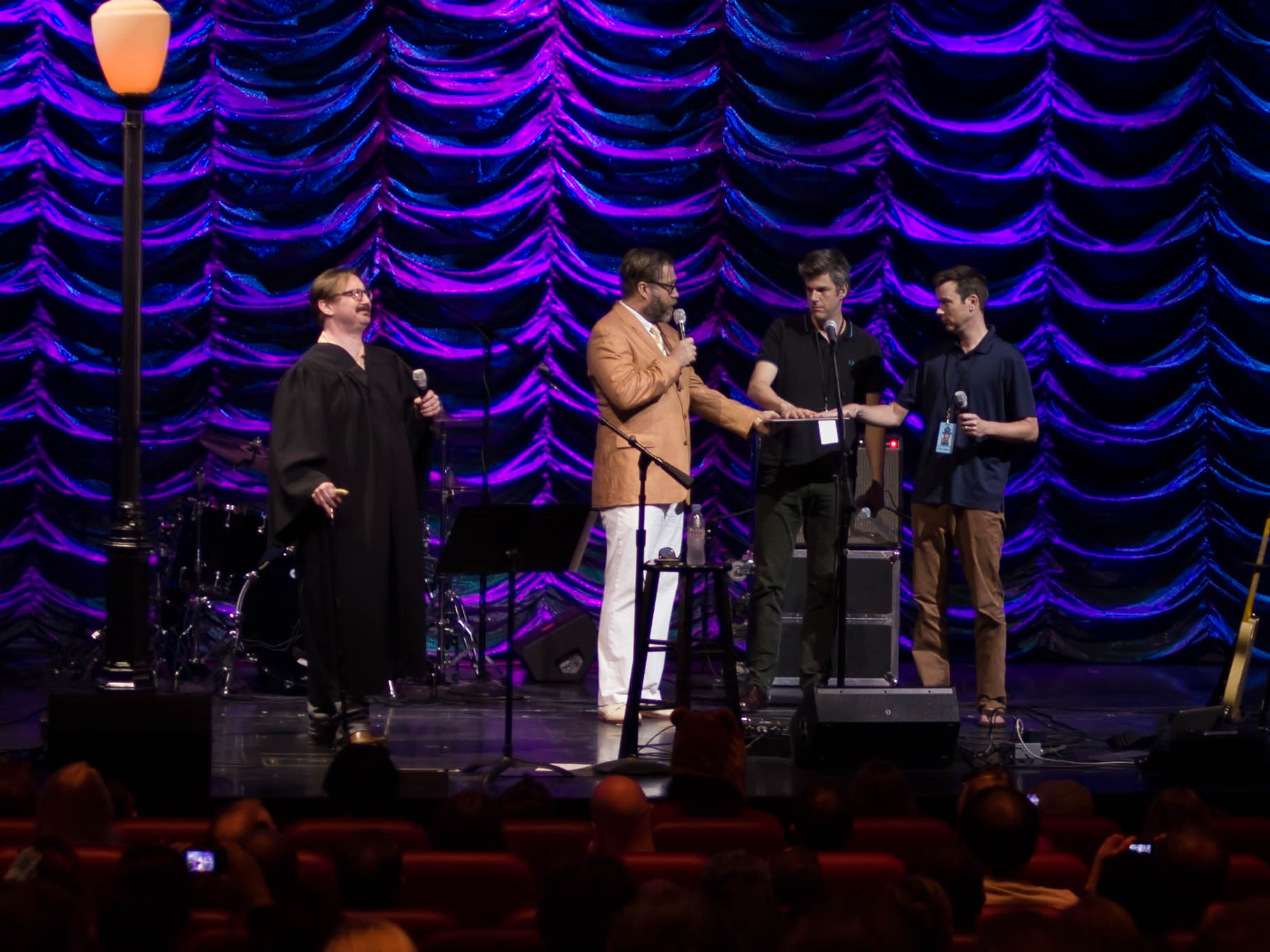 Live recording of Judge John Hodgman at JoCo Cruise Crazy III in 2013.